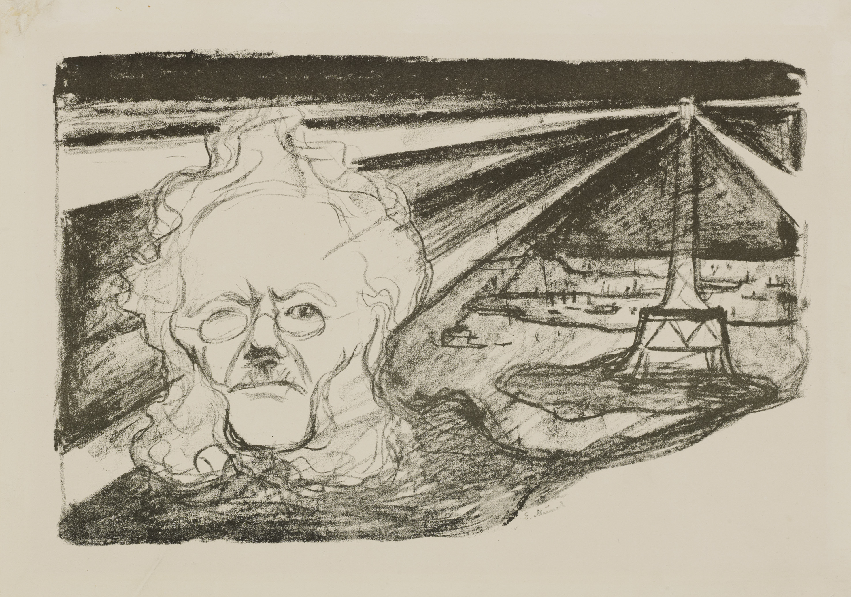 Theatre poster of Henrik Ibsen's play John Gabriel Borkman by Edvard Munch